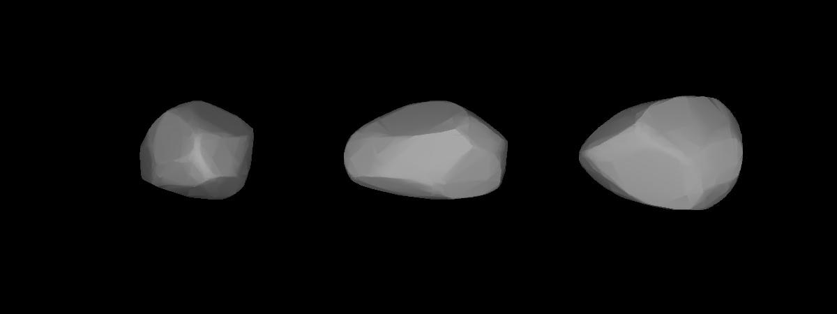 A three-dimensional model of 1634 Ndola that was computed using light curve inversion techniques.